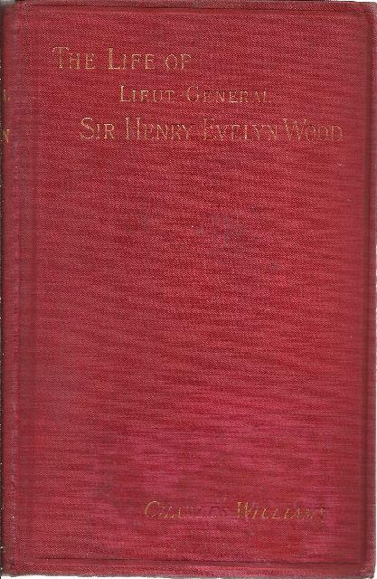 Self produced scanned book cover of the Life of Sir Evelyn Wood written by Charles Williams.